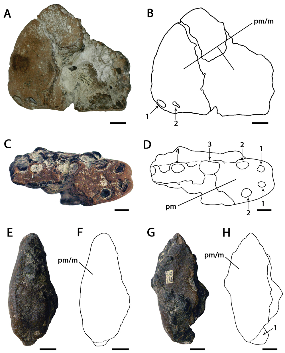 Ornithocheirus simus. A–D holotype CAMSM B54428 (Albian, Cambridge Greensand), anterior part of the rostrum A left lateral view B respective line drawing C ventral view D respective line drawing E–H referred specimen CAMSM B54552 (Albian, Cambridge Greensand), anterior part of the rostrum E anterior view F respective line drawing G left lateral view H respective line drawing. Abbreviations: m – maxillae, pm – premaxillae. Arrows and numbers indicate alveoli or teeth and their respective position. Scale bar = 10 mm.